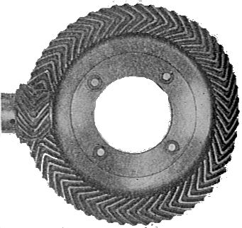 Herringbone double-helical bevel gears, Citroens patent (Autocar Handbook, Ninth edition).jpg